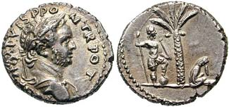 TITUS, as Caesar. 72 AD. AR Denarius (3.34 gm). Antioch mint. Judaea Capta reference type. T CAES IMP VESP PO-N TR POT, laureate and draped bust right, seen from behind Mourning Jewess seated right beneath palm tree, Vespasian standing to left of palm tree in military dress, foot on helmet, holding spear and parazonium. RIC II 367 (Vespasian); RPC II 1934; Brin 93; BMCRE 518 (Vespasian); RSC 392. Superb EF. Exceptional Judaea Capta reference coin.